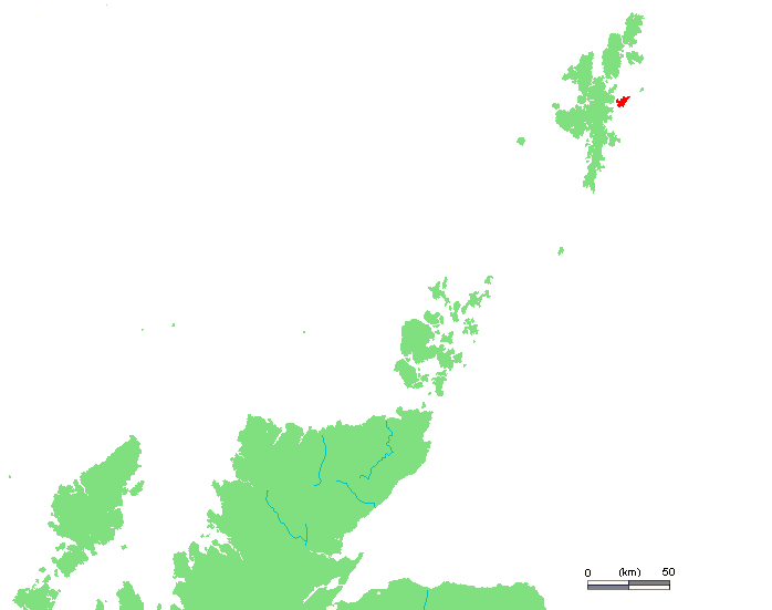 VK Whalsay.PNG (Orkney and Shetland islands, UK)